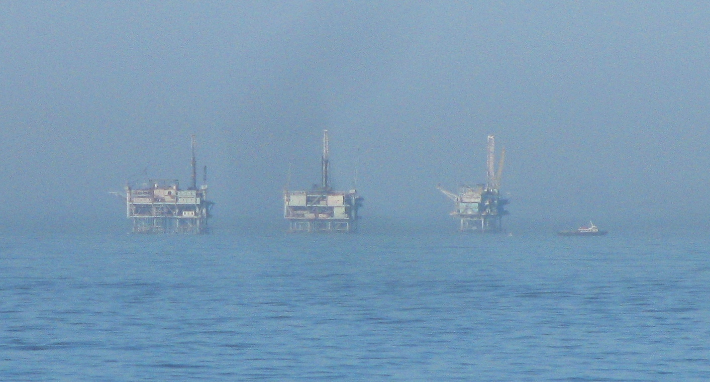 the three platforms in the Carpinteria offshore field, as seen from alongside Highway 101. Photo by self, 25 Sept 2010; GFDL/equiv.